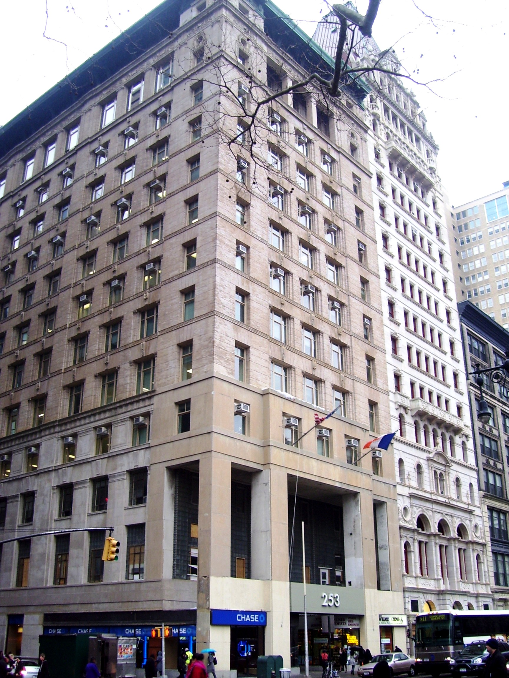 The Postal Telegraph Building (foreground) at 253 Broadway on the corner of Murray Street in the Trbeca neighborhood of Manhattan, New York City, was built in 1892-94 for a competitor of Western Union, and was designed by Harding & Gooch in the Neoclassical style. In 1947, the Home Life Insurance Company, which owned the building next door at 256-57 Broadway (background), purchased the building as an annex and consolidated them together internally. The two-building complex was designated a NYC landmark in 1991. (Source: Guide to NYC Landmarks (4th ed.) and AIA Guide to NYC (4th ed.))